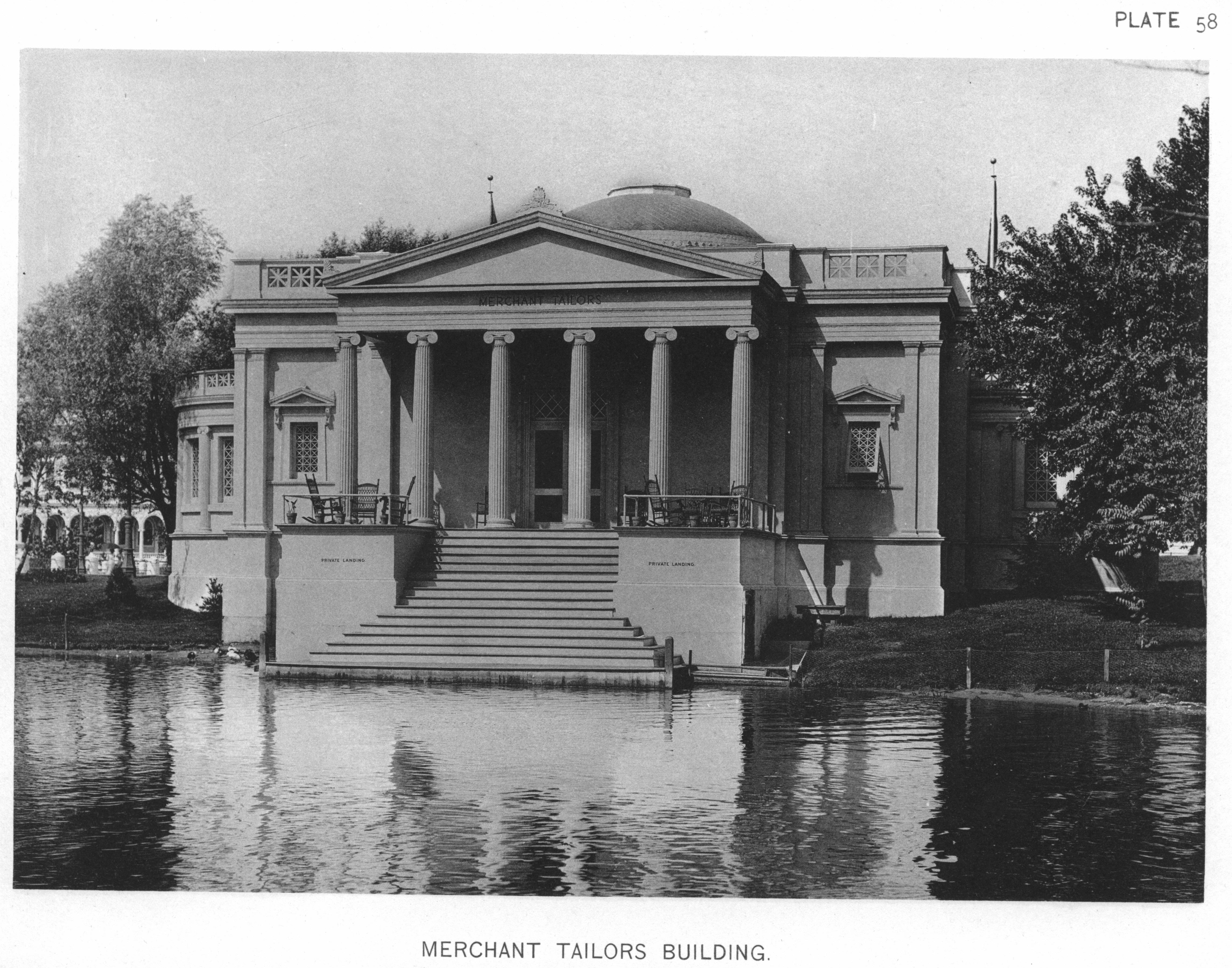 Official Views Of The World's Columbian Exposition: Merchant Tailors Building, Lagoon north - S.S. Beman Chicago (architect)